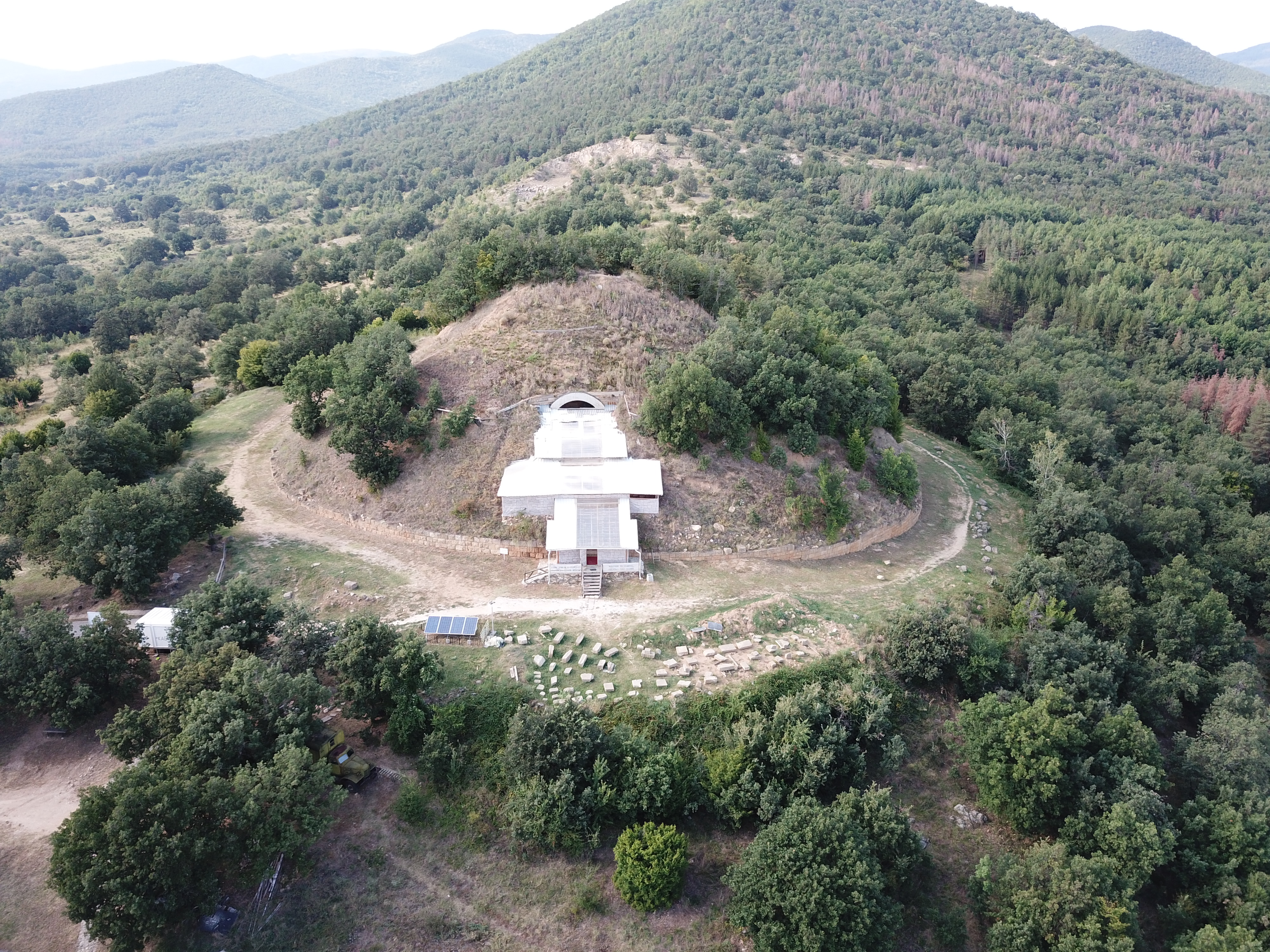 Chetinyova Mogila